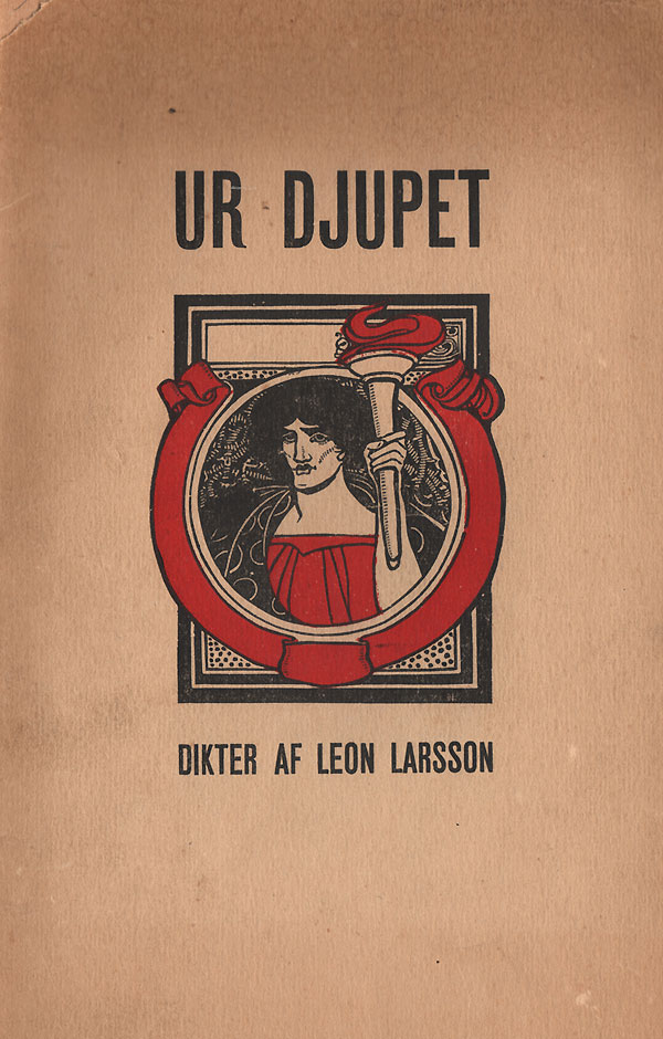 Book cover: Larson, Leon: Ur djupet